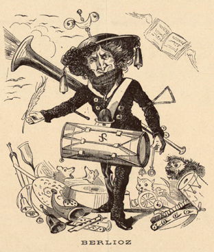 Contemporary caricature of Hector Berlioz (1803 – 1869)